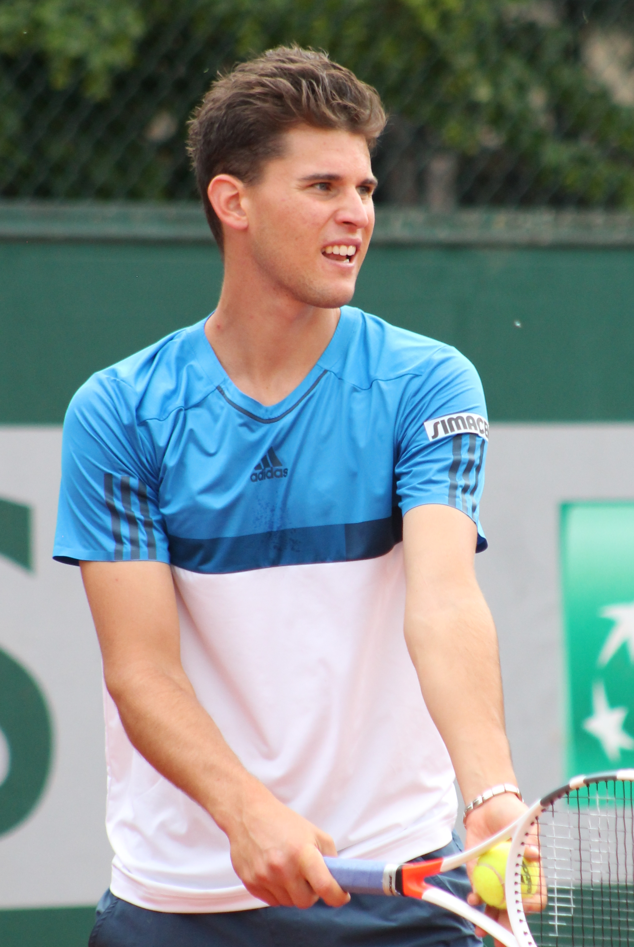 Thiem RG16 (11)